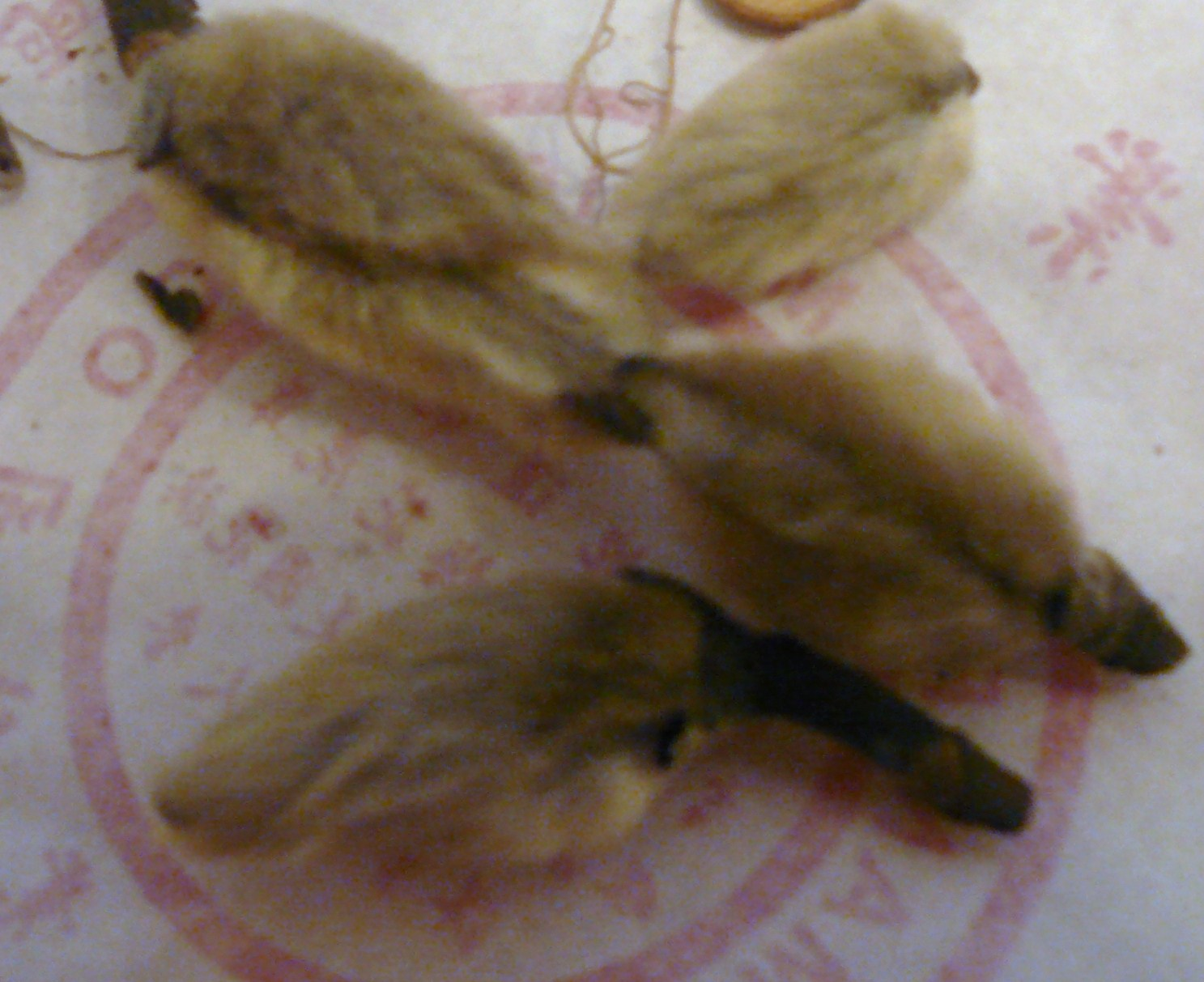 Buds of Magnolia liliiflora as Chinese herbal medicine.